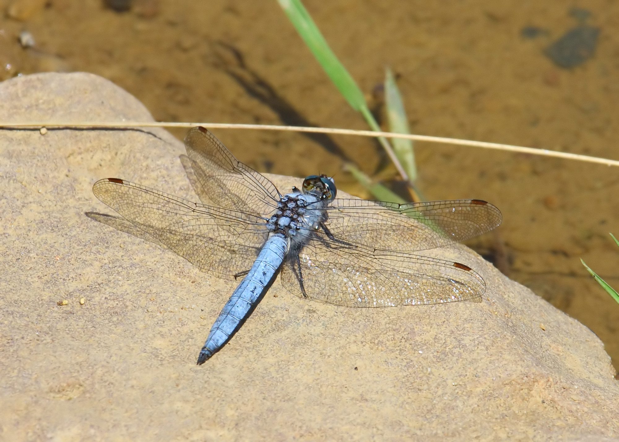 male Orthetrum brunneum